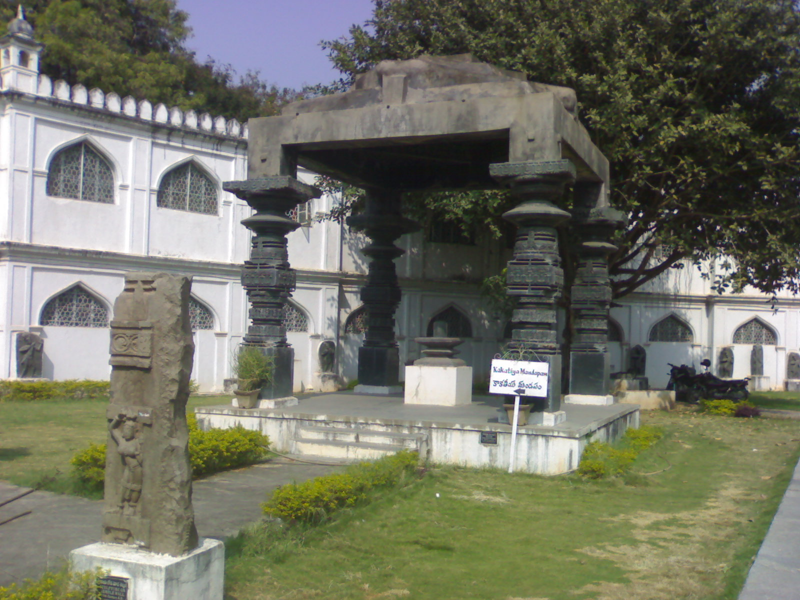 Kakatiya mandapam at the museum.